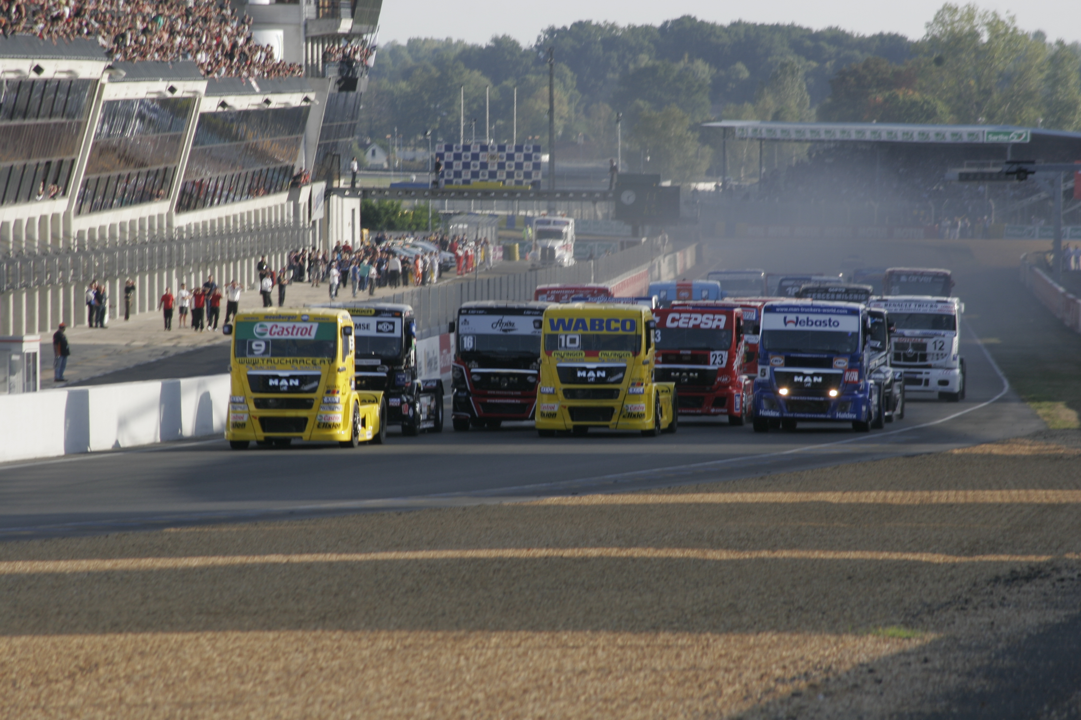 Start of Race 2 European Championship Le Mans 2009